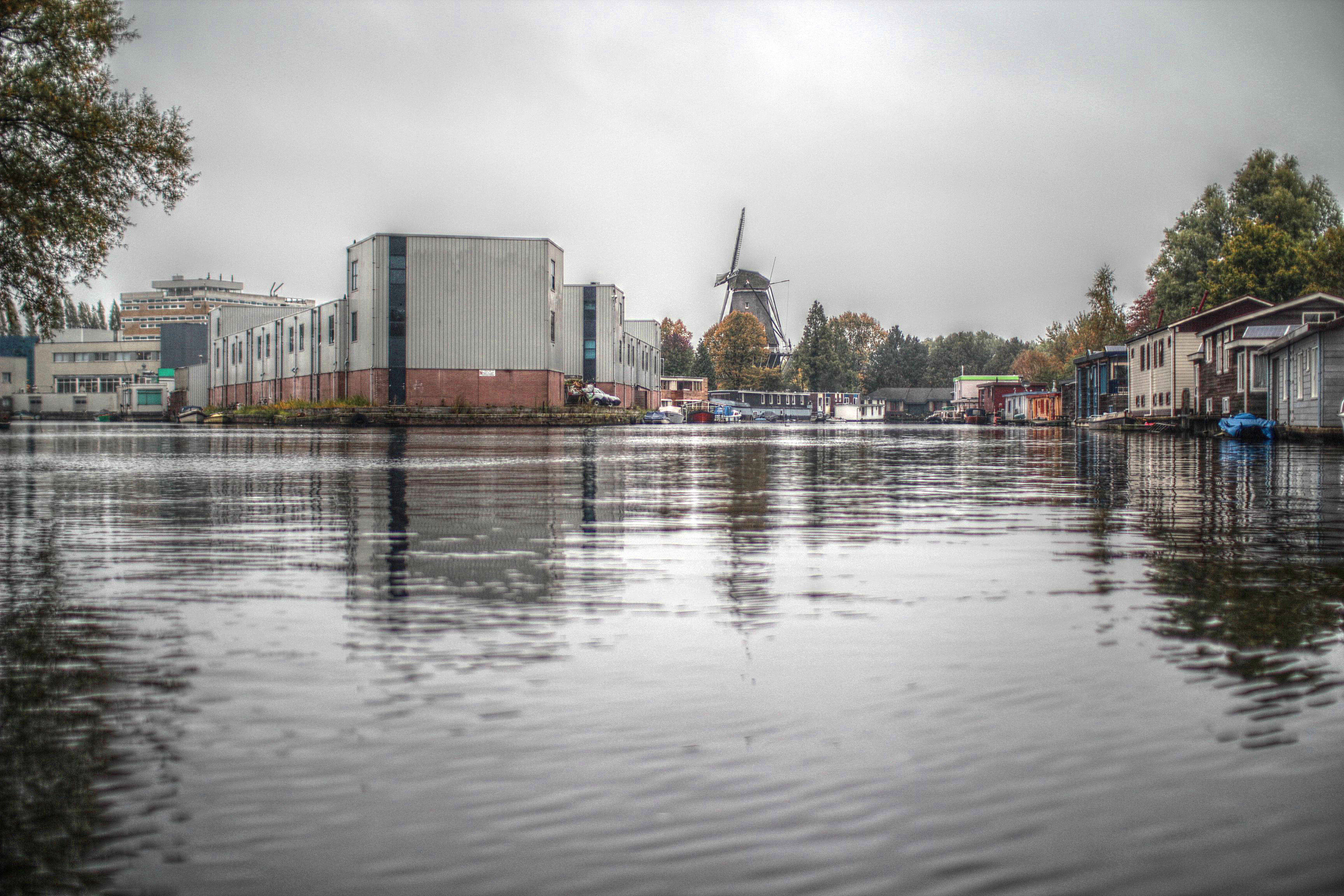 The Westelijk Marktkanaal in Amsterdam-West. The mill at the end is "de Bloem". October 2012